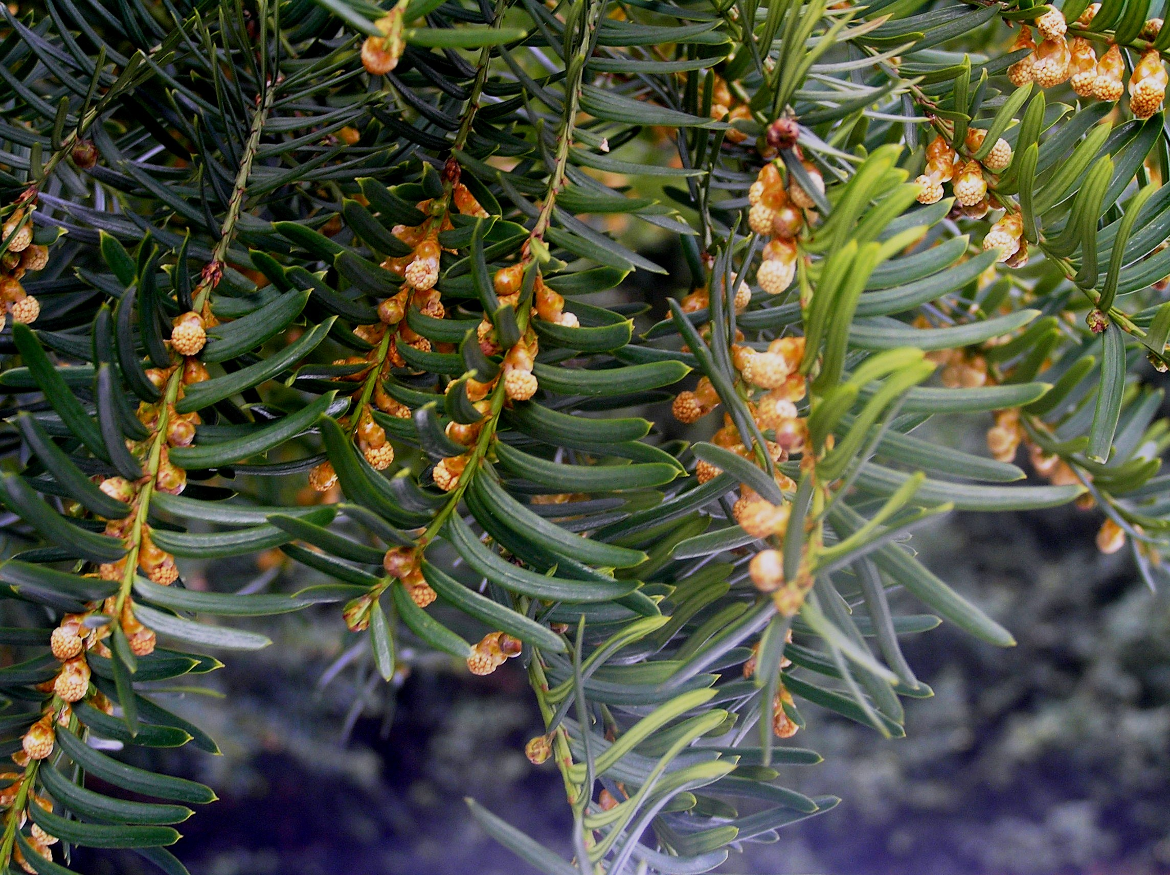 Taxus cuspidata, cultivated in Brno, Czech Republic